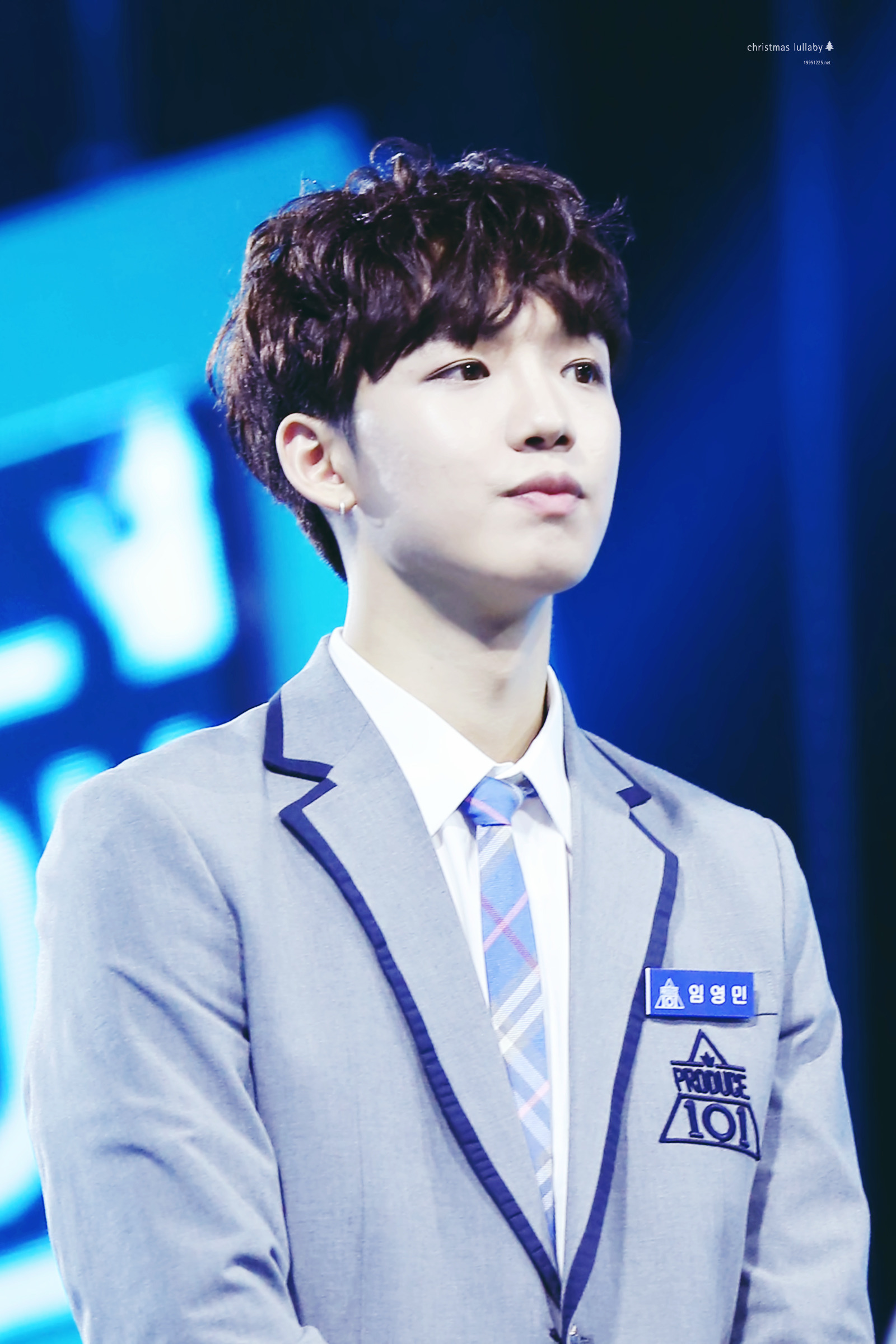 lim young min 170616